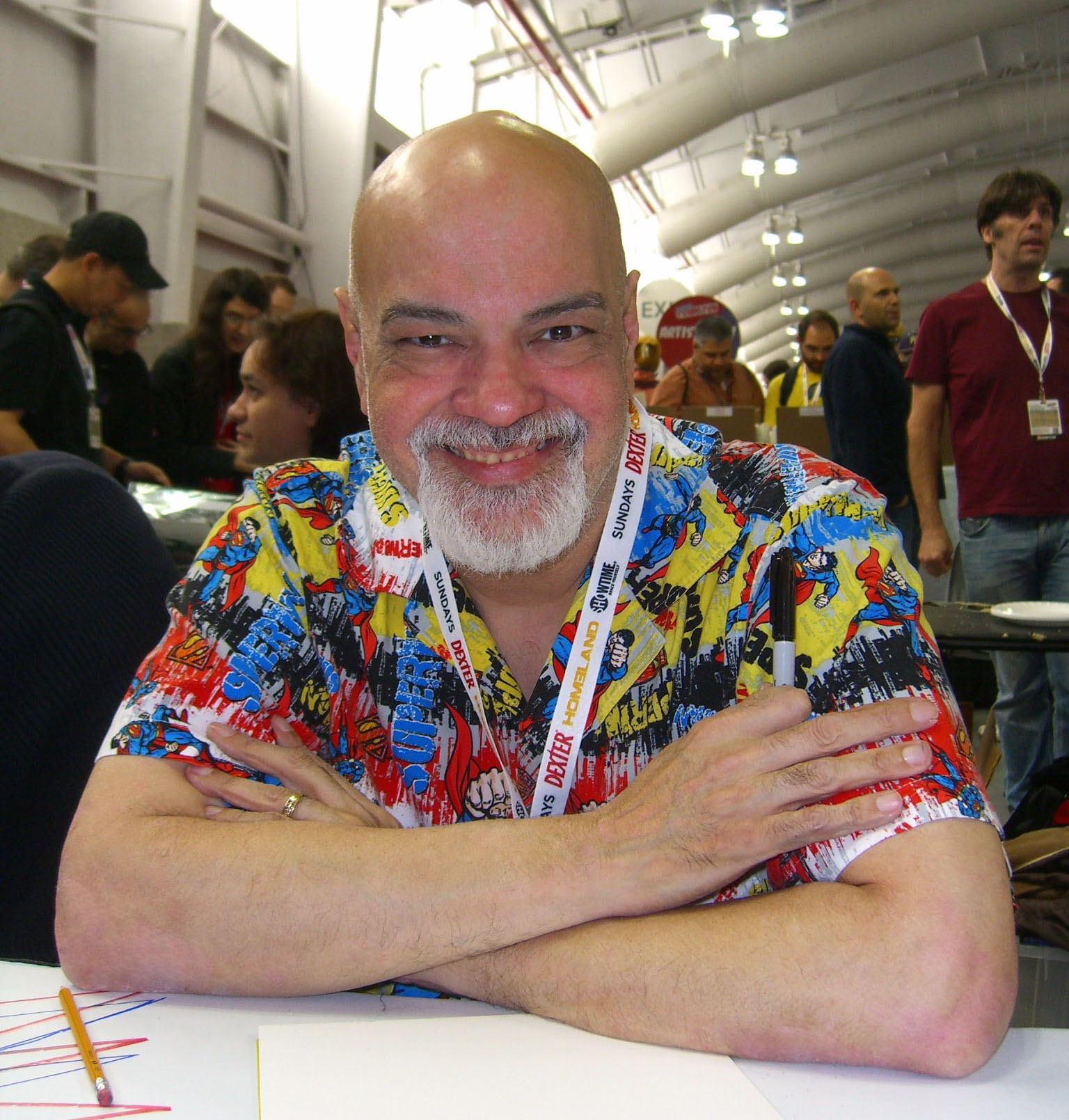 Comics creator George Pérez on Day 3 of the 2012 New York Comic Con, Saturday October 13, 2012 at the Jacob K. Javits Convention Center in Manhattan. This photo was created by Luigi Novi. It is not in the public domain, and use of this file outside of the licensing terms is a copyright violation.